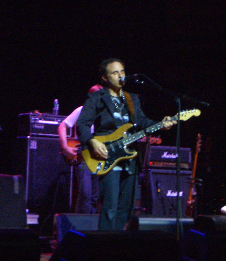 Lofgren performing at a benefit for Arthur Lee of Love at Beacon Theater